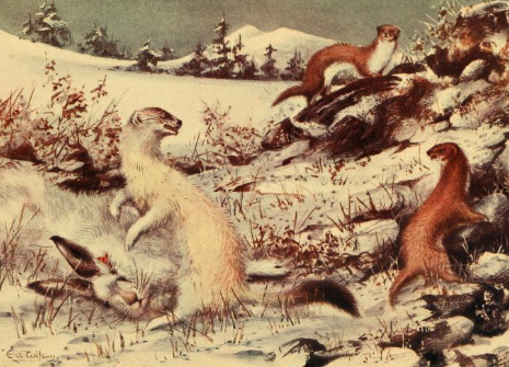 A stoat in winter pelage guarding a mountain hare carcass from a pair of least weasels